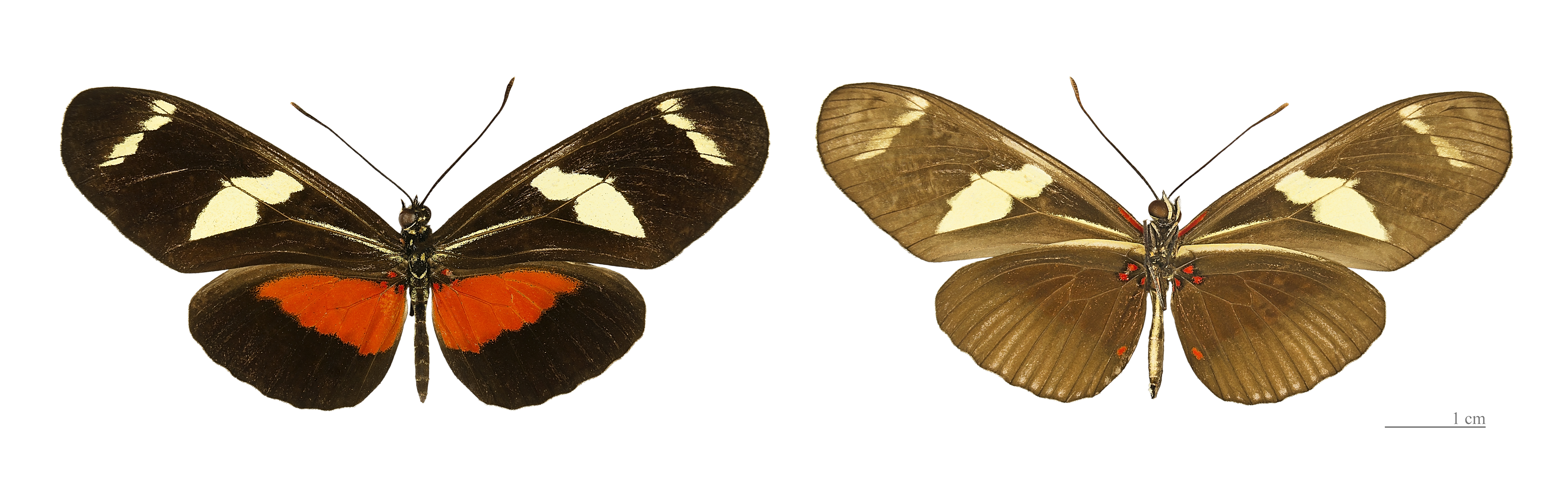 Heliconius ricini - Two views of same specimen.